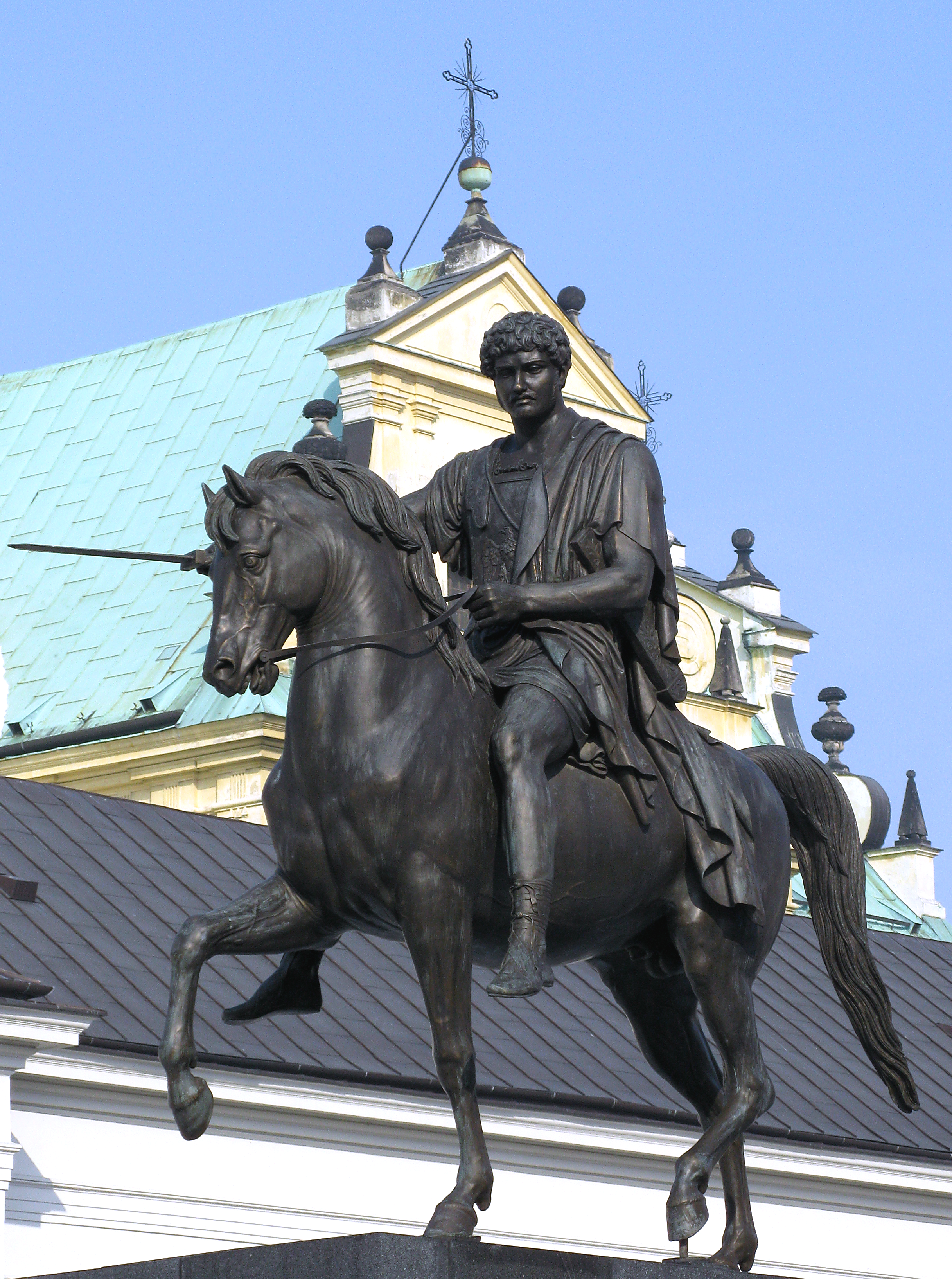 Józef Poniatowski Monument in Warsaw